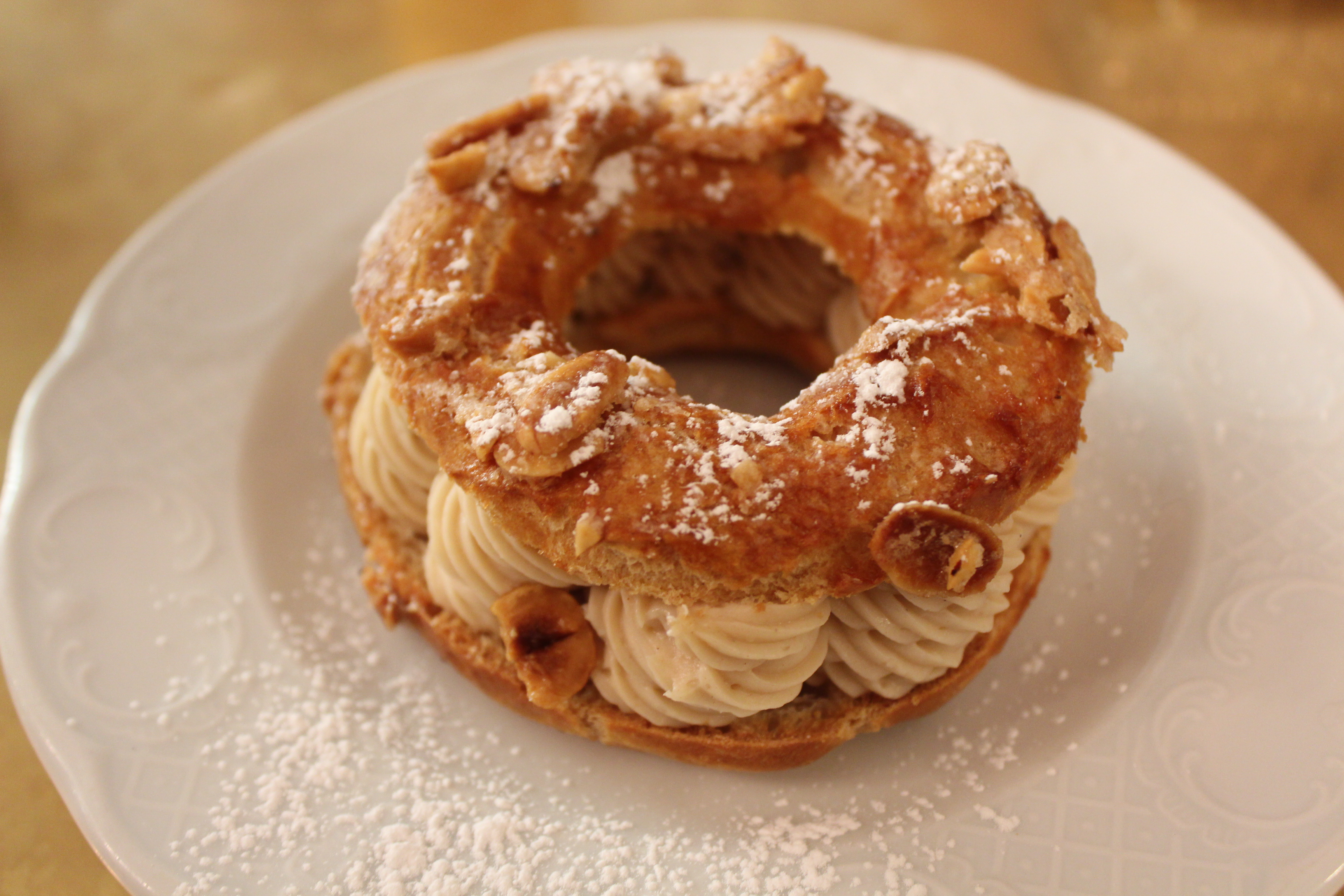 Paris Brest from Cafe Kadosh, Jerusalem